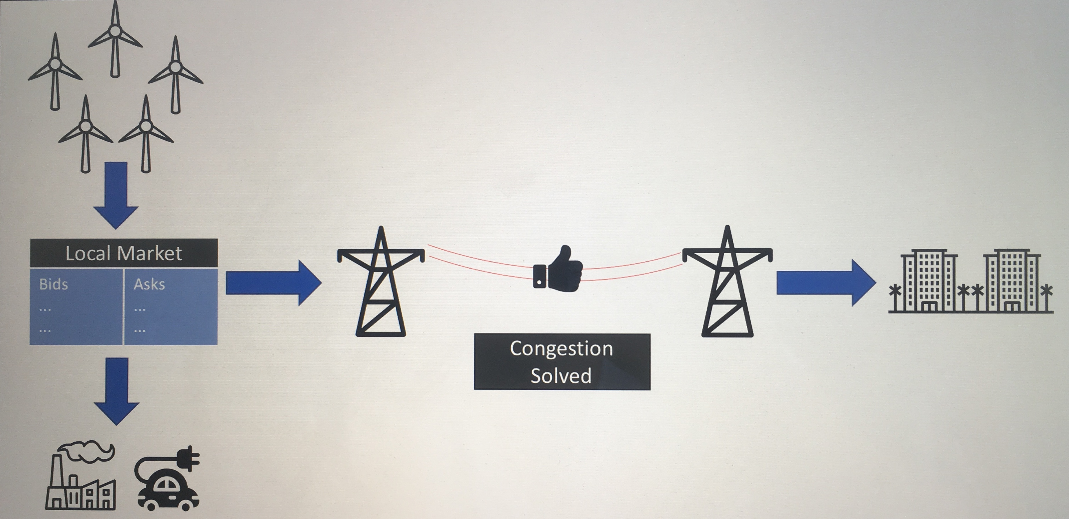 Local flexibility markets (Germany): By making it possible to use energy locally, a Local Market can alleviate congestions in the grid.